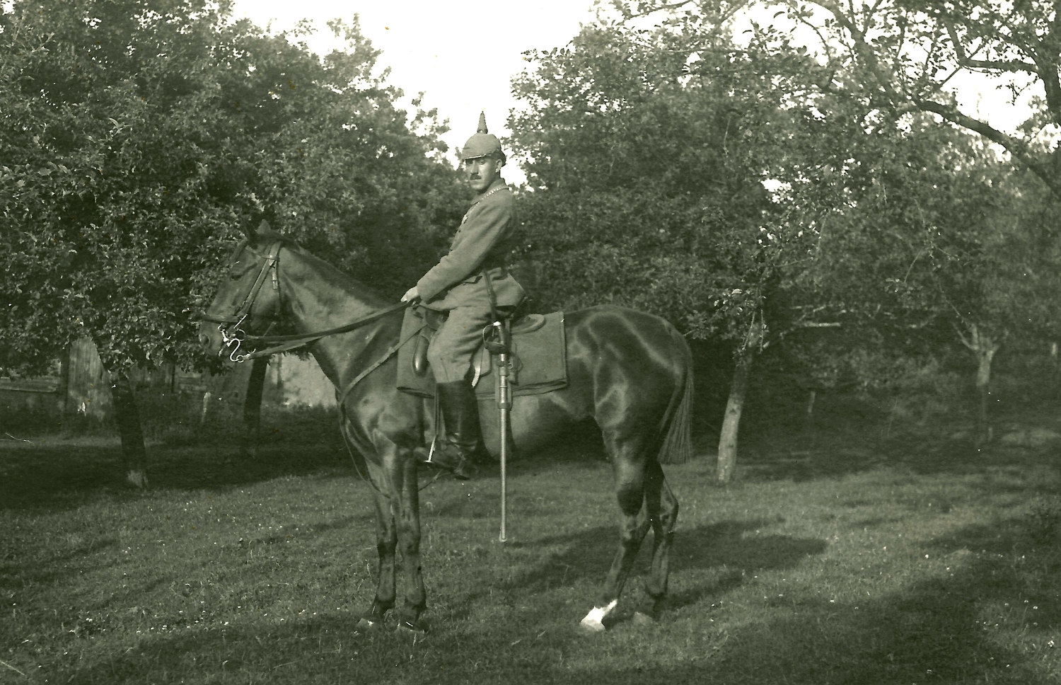 Military police officer